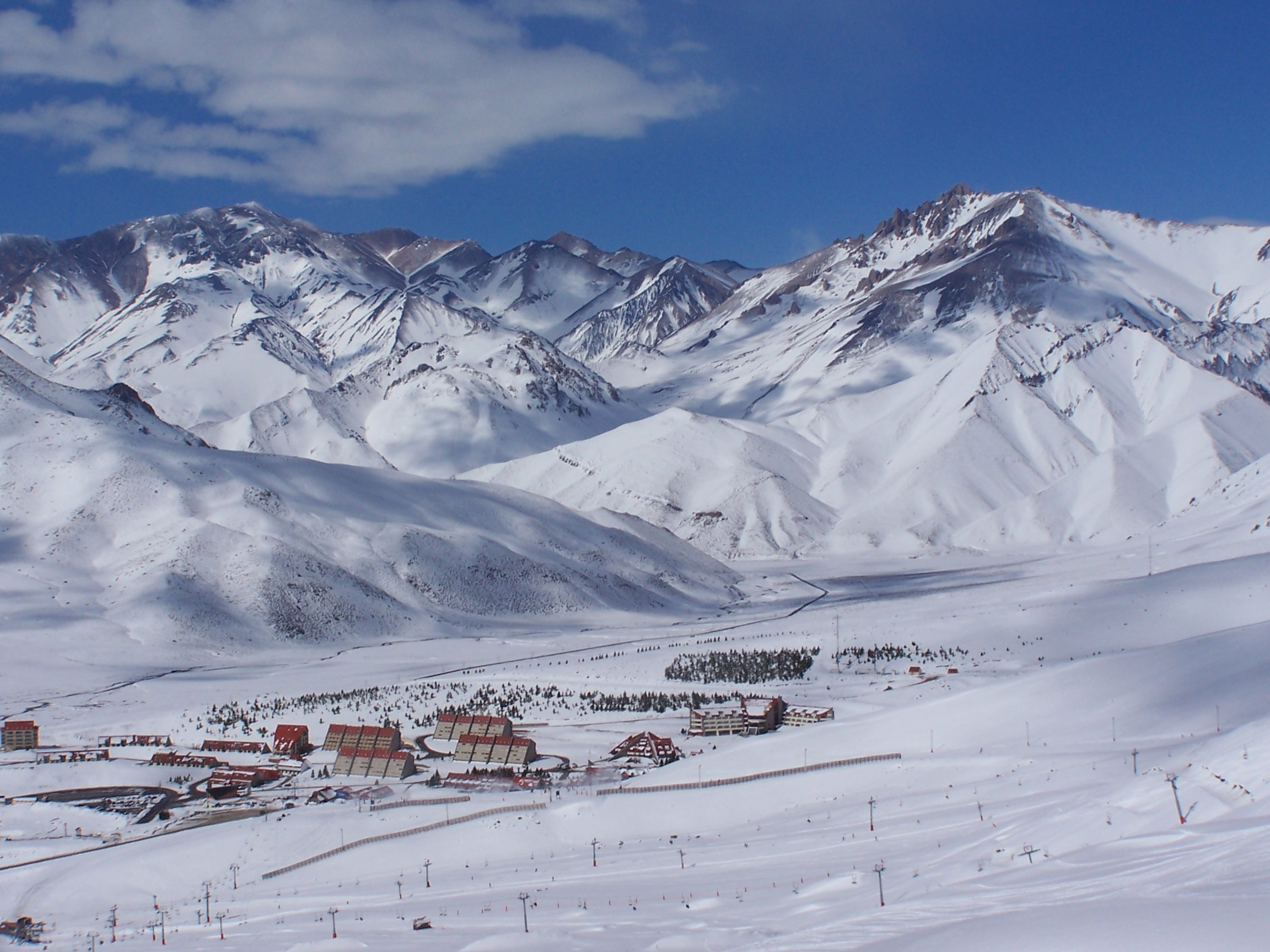 Las Leñas an Andean ski resort, located in the western part of the Mendoza Province, Argentina.